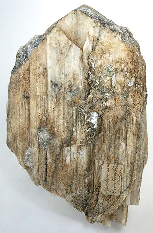 Spodumene Locality: Walnut Hill Pegmatite Prospect, Huntington, Hampshire County, Massachusetts, USA (Locality at ) Size: cabinet, 14.2 x 9.2 x 3.0 cm Spodumene This is the CRYSTAL TYPE LOCALITY for spodumene, apparently. A LARGE, 660-gram single, sharply terminated crystal of spodumene from this classic old locality circa mid-1800s! They were considered very important at the time (remember, gem pink kunzite had NOT yet been found in California, Brazil, or Afghanistan), and these crystals were considered highly important and sold or traded into all major museums. Owning one of these would be a goal to assemble any major collection of the time, of important US minerals. Today, they are not worth their weight in gold any more (660 grams...ouch!), but they still are important historical pieces. This location was first documented by Edward Hitchcock in 1833 (Report on the Geology, Mineralogy, Botany and Zoology of Massachusetts), and the first location to yield crystallography on the species (1879). The quarry was last operated by B. K Emerson of Amherst College, and Frank Nason (Nasonite) operated the location in 1885. This is when the majority of the old specimens were recovered. For the size of this crystal, this is really good! They generally get a little more "aesthetically challenged" with size. This is one of the best I have seen, and although color-challenged, it is a very important historical specimen nonetheless, and a superb example from this now defunct pegmatite. ex. Ken Hollman Collection. Thanks to Jim Chenard for this footnote: A funny note on this area was with regards to the early Professor Emerson, who wrote the Mineralogical Lexicon of Hampshire, Hampden Counties in Mass. His journal well documents the Walnut Hill location, and always used taverns as landmarks. His writing got worse during the day, and he would frequently come back to Amherst on foot, since he would forget where his horse was. This is an old location!